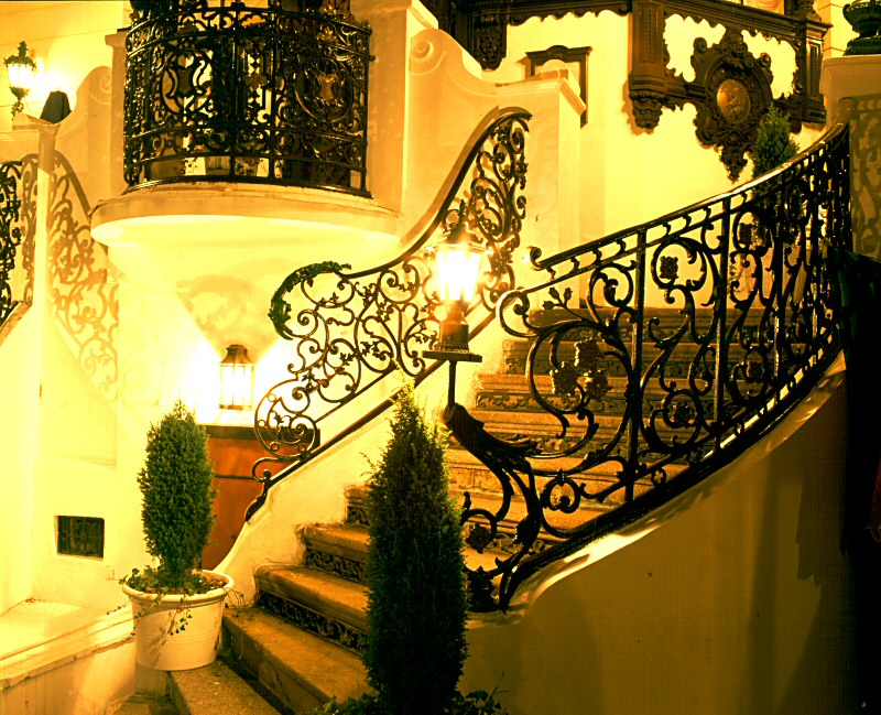 Hanauer Pavilion, Prague, Czech Republic (Author: Tomáš Pecina)